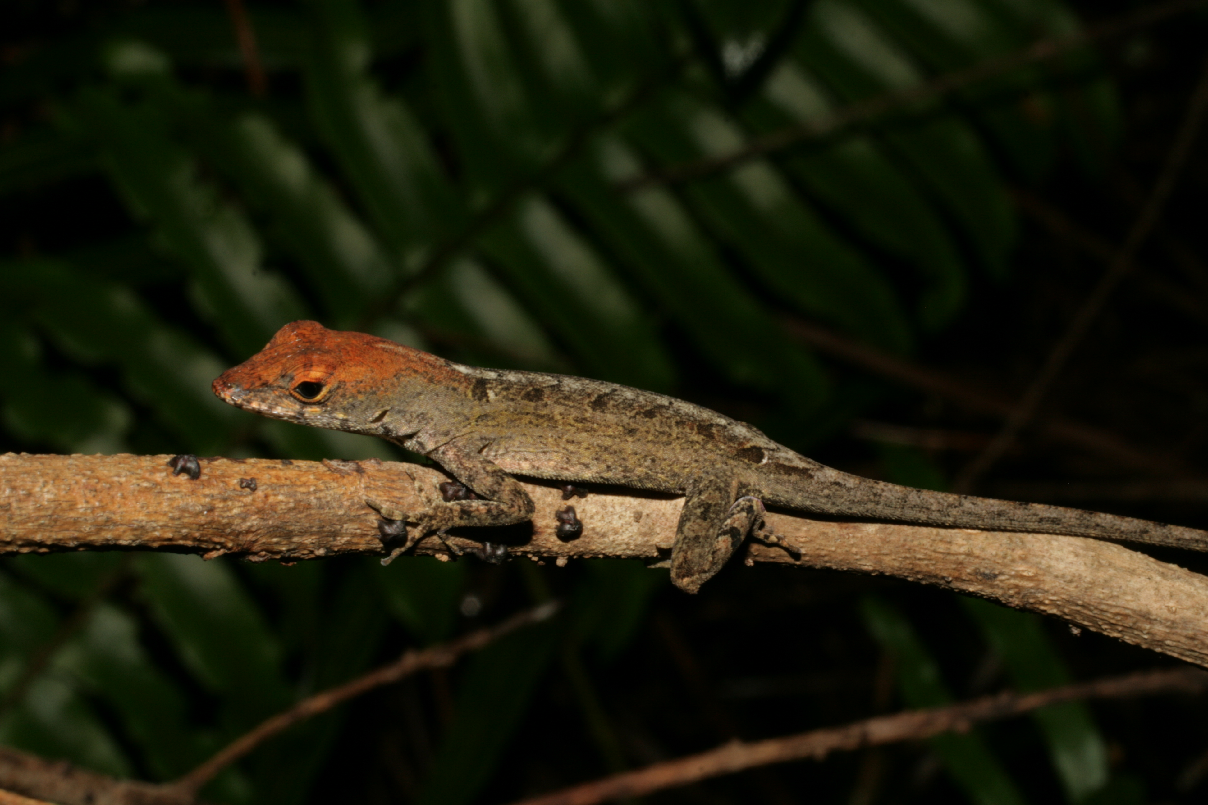 Lizard on twig. Loxahatchee National Wildlife Refuge, Florida.